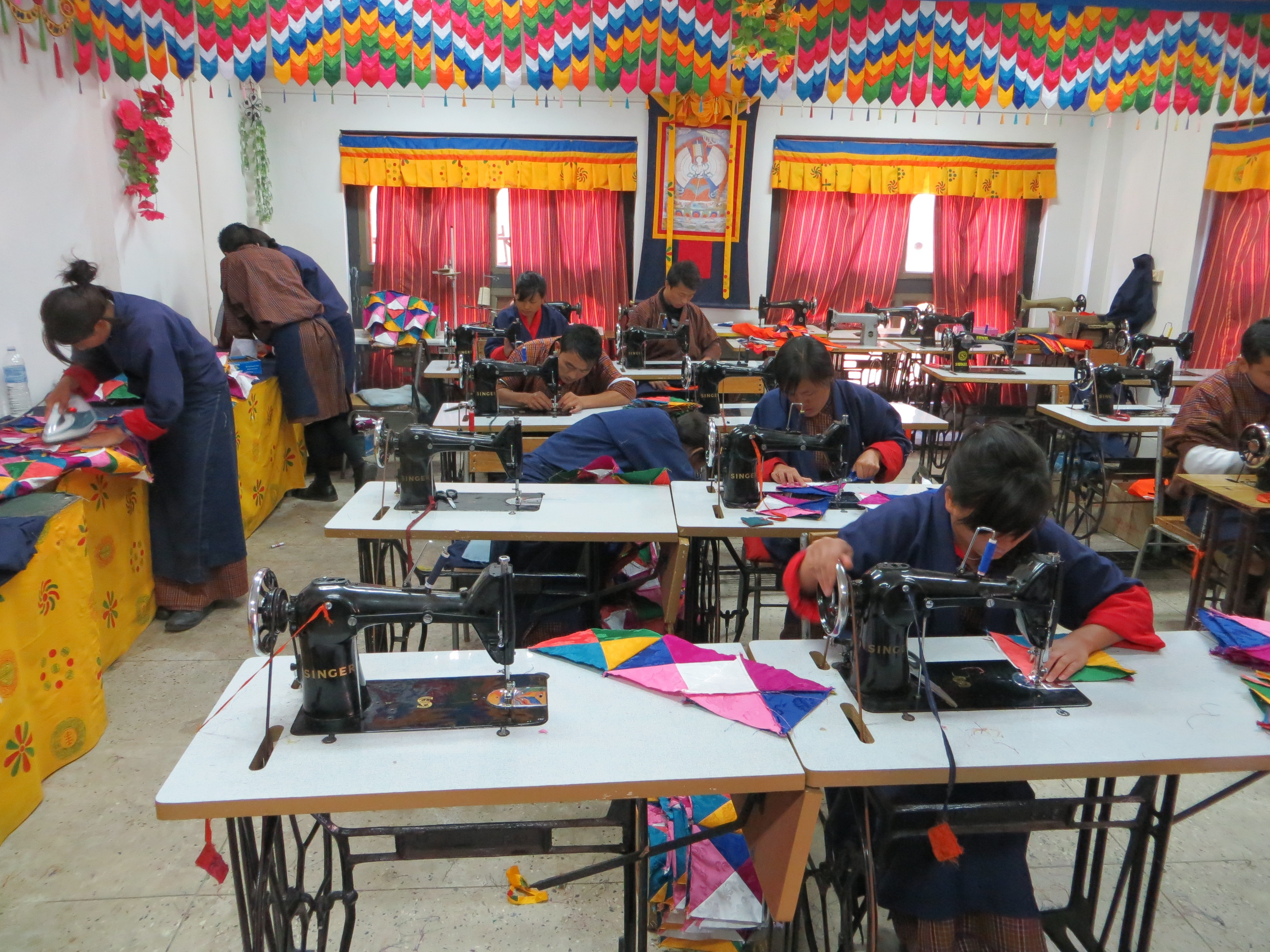 Royal Textile Academy of Bhutan, Thimpu city.